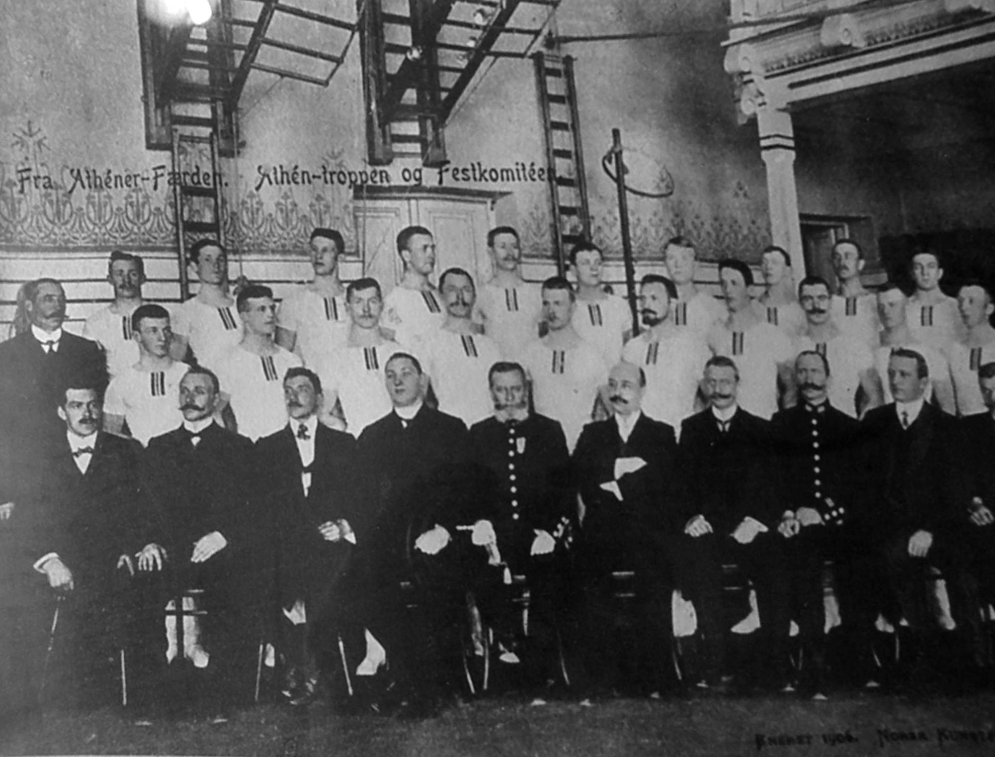 Norwegian gymnasts, Athen Olympics 1906